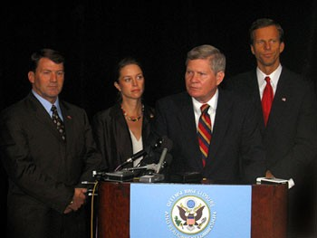 Sen. Johnson (second from right) answers questions after he helped prevent the closure of Ellsworth Air Force Base in South Dakota. Left to right: Governor Mike Rounds, U.S. Rep. Stephanie Herseth, Johnson and U.S. Senator John Thune.